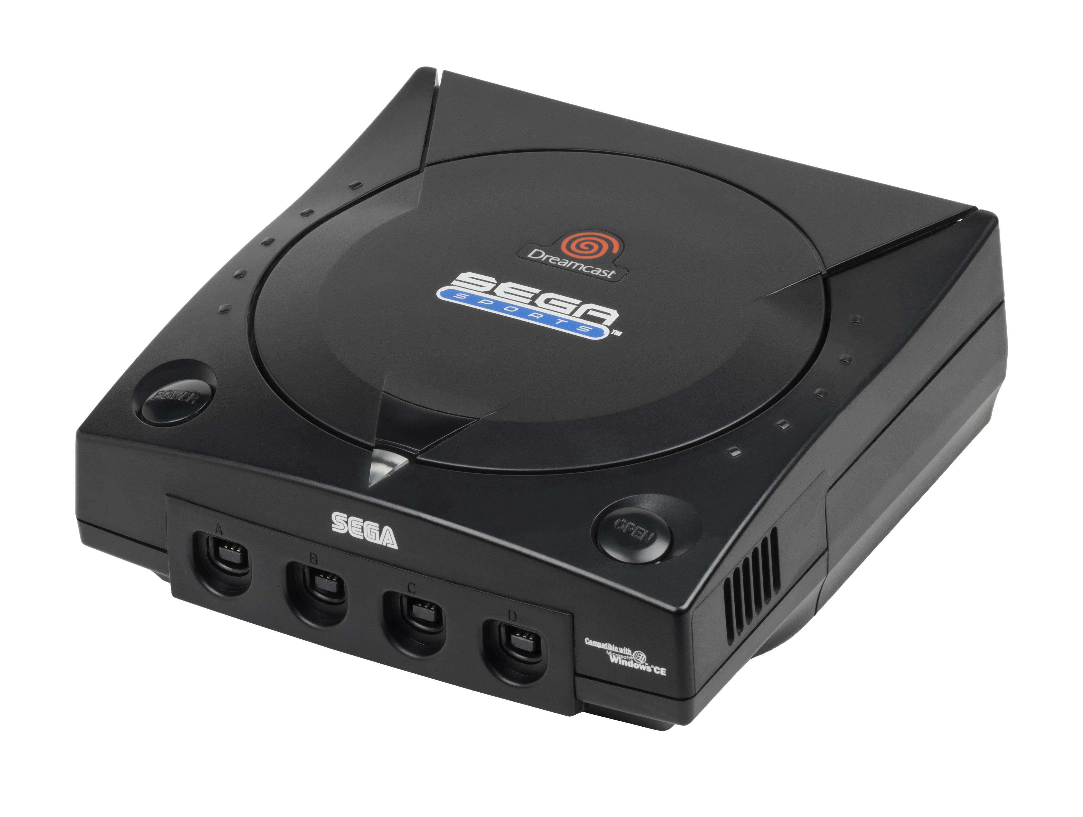 A Sega Dreamcast. This is a special edition, all-black "Sega Sports" release of the console.